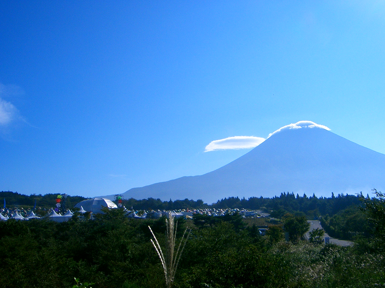 The Asagiri Jam music festival and a view of Mount Fuji from the grounds of the Asagiri Arena.